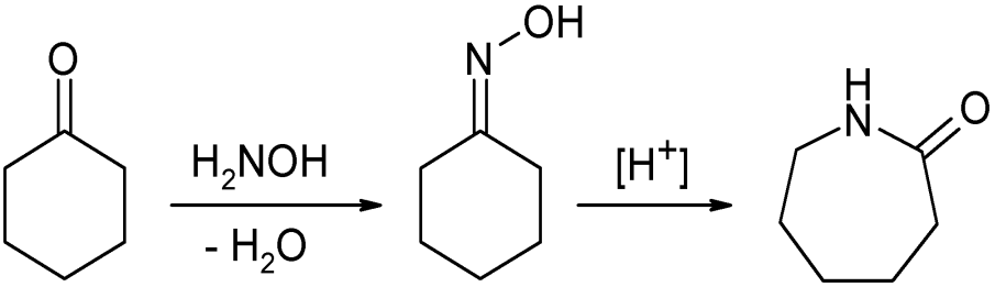 Caprolactam synthesis from cyclohexanone